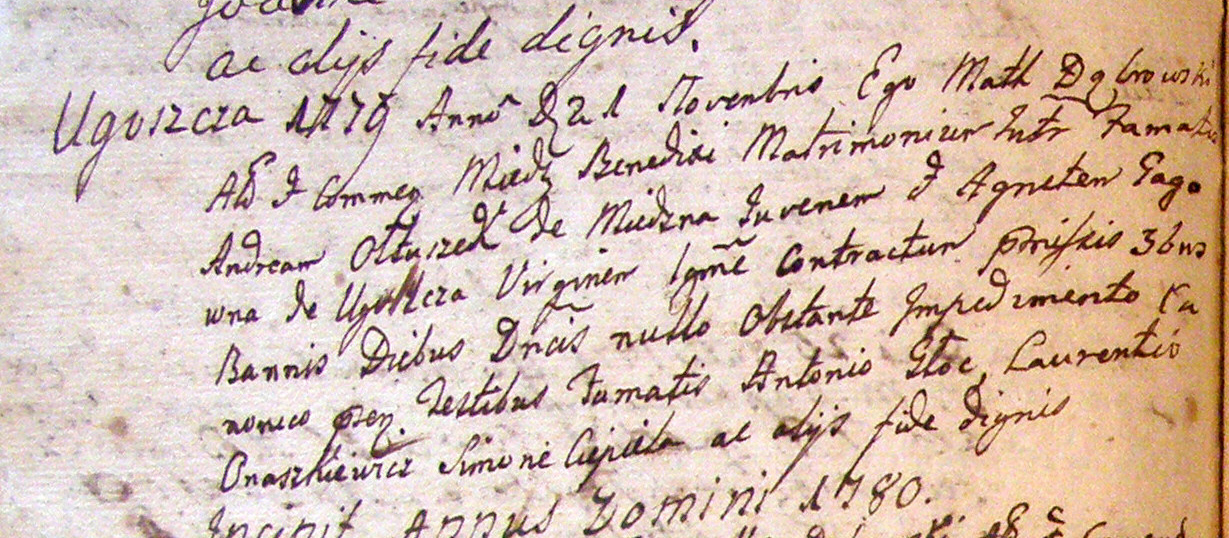 Marriage record of Andrzej Ołtuszek and Agnieszka Gago from the year 1779.